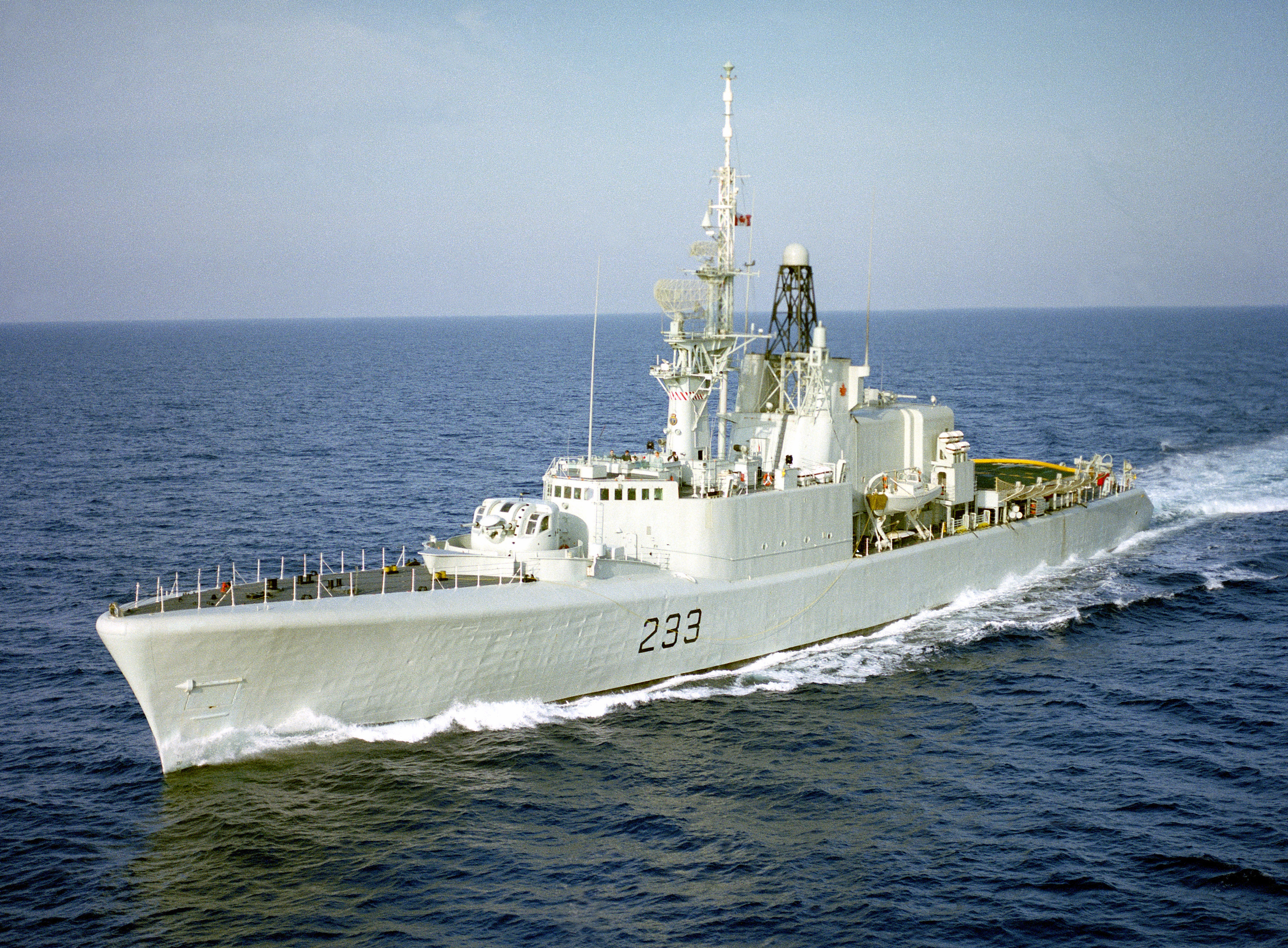 The Royal Canadian Navy St. Laurent-class destroyer HMCS Fraser (DDH 233) underway during exercise Distant Drum, in 1983.